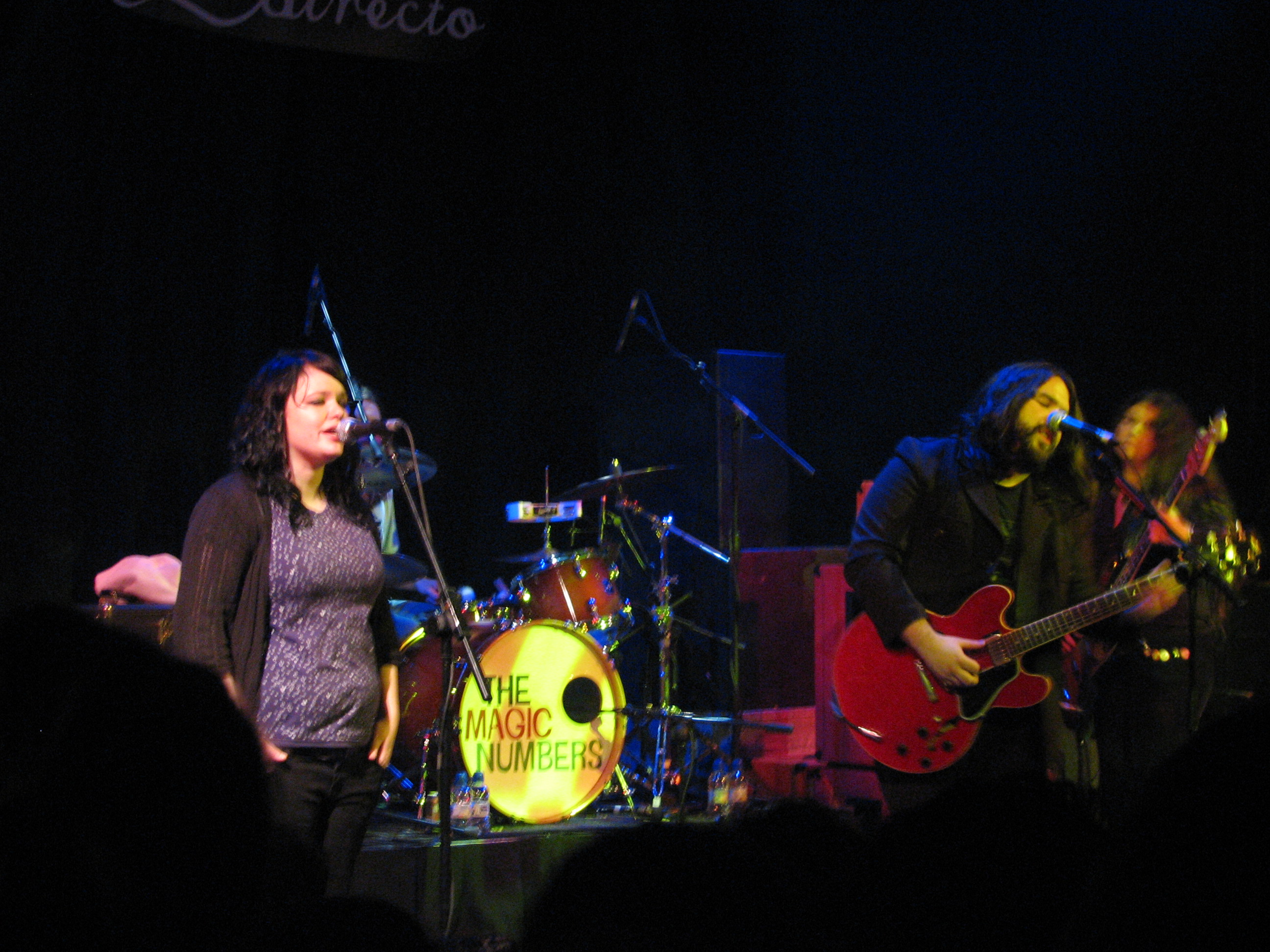 The Magic Numbers in concert, Madrid 2006